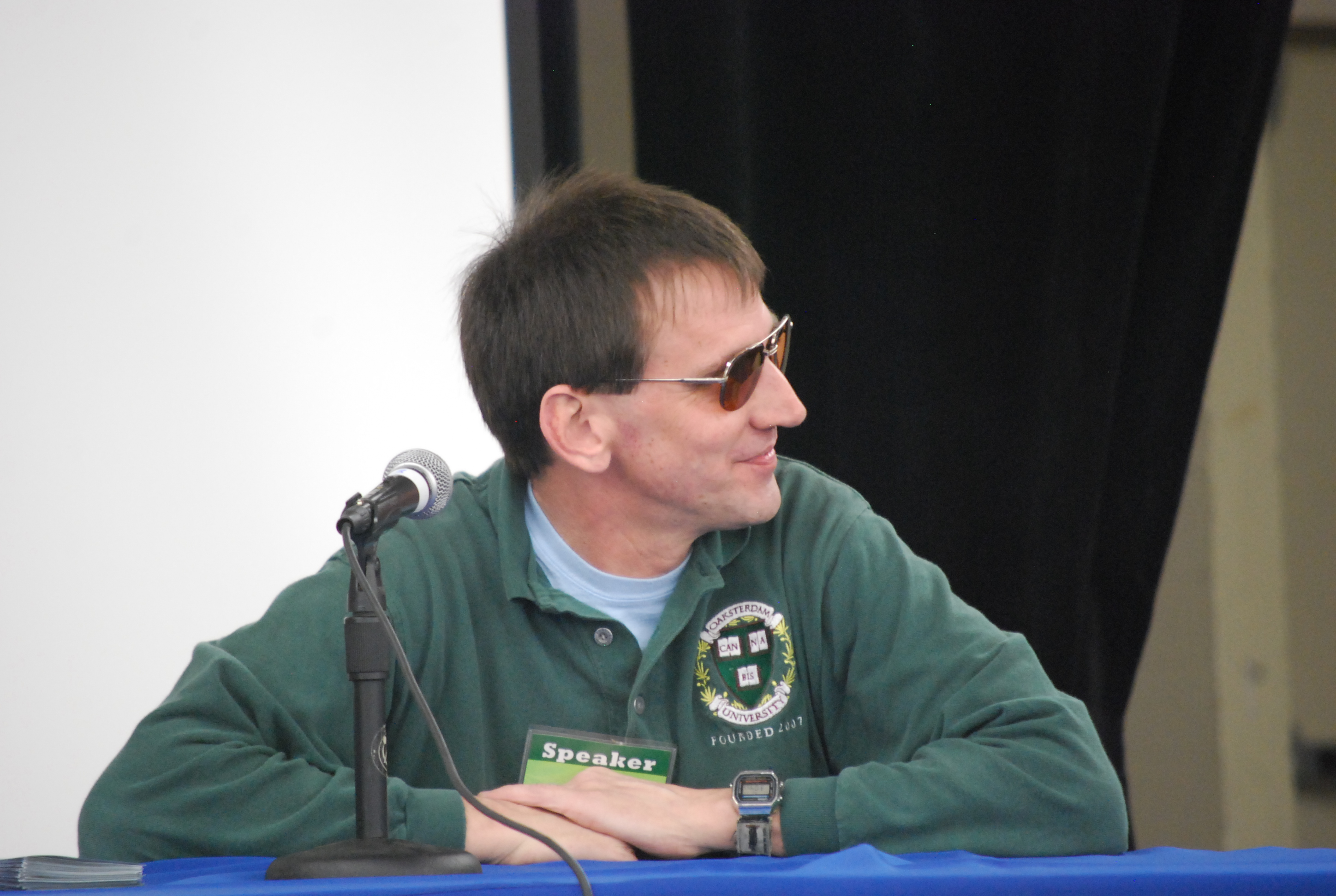 Oaksterdam University's Richard Lee at INTCHE 2010.